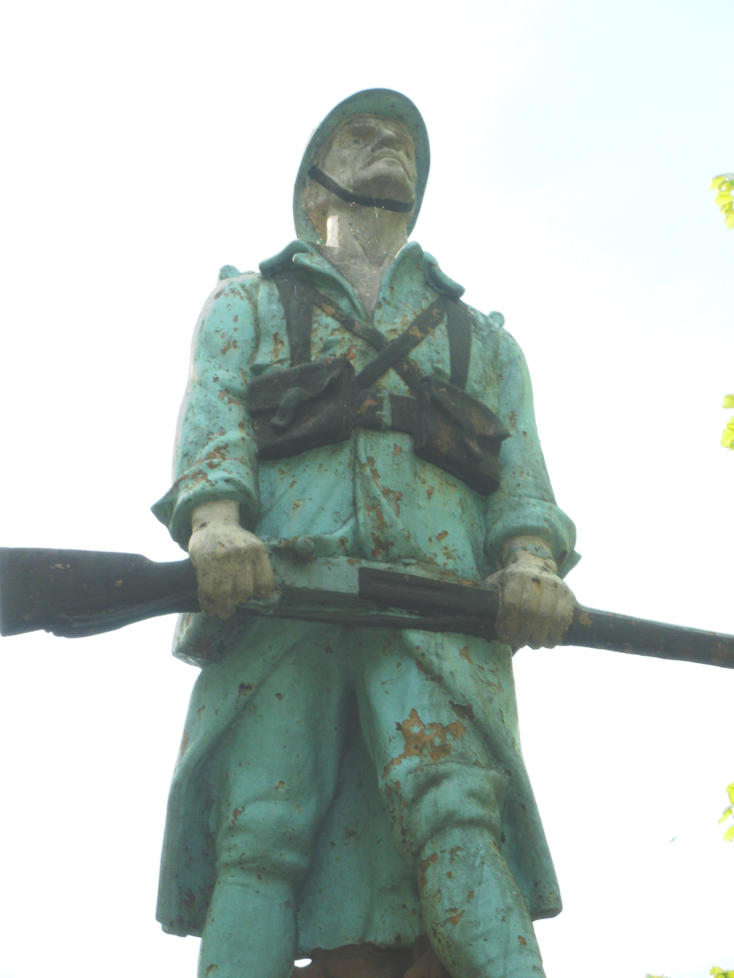 The monument aux morts at Morisel in the Somme